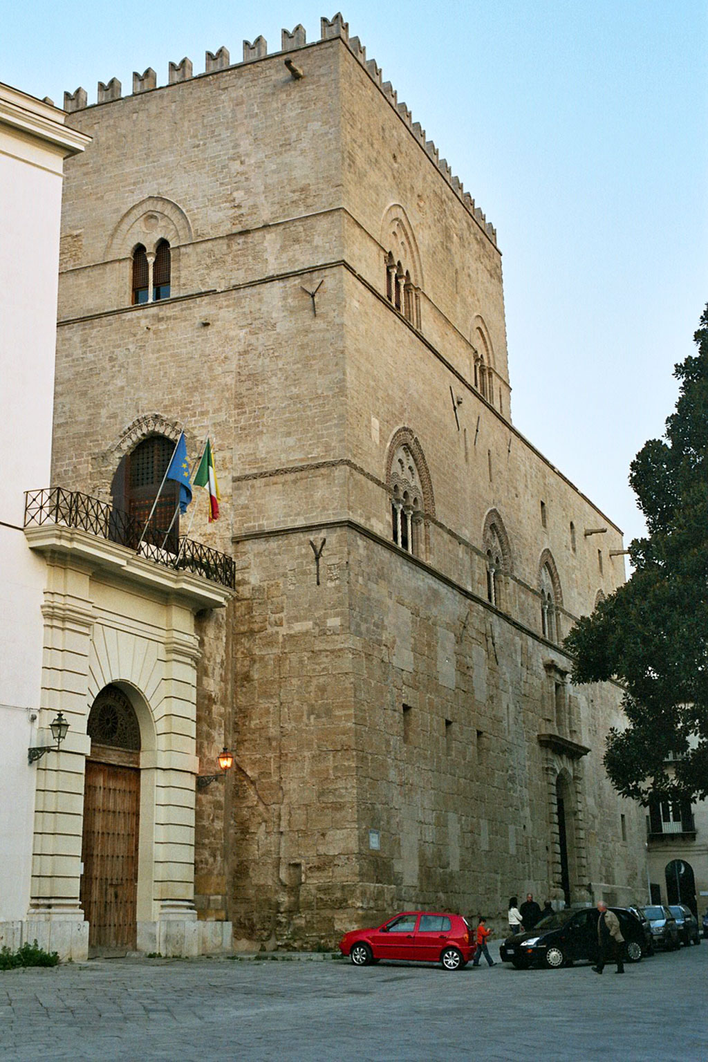 Palazzo Chiaramonte, Palermo, Main facade seen from Piazza Marina